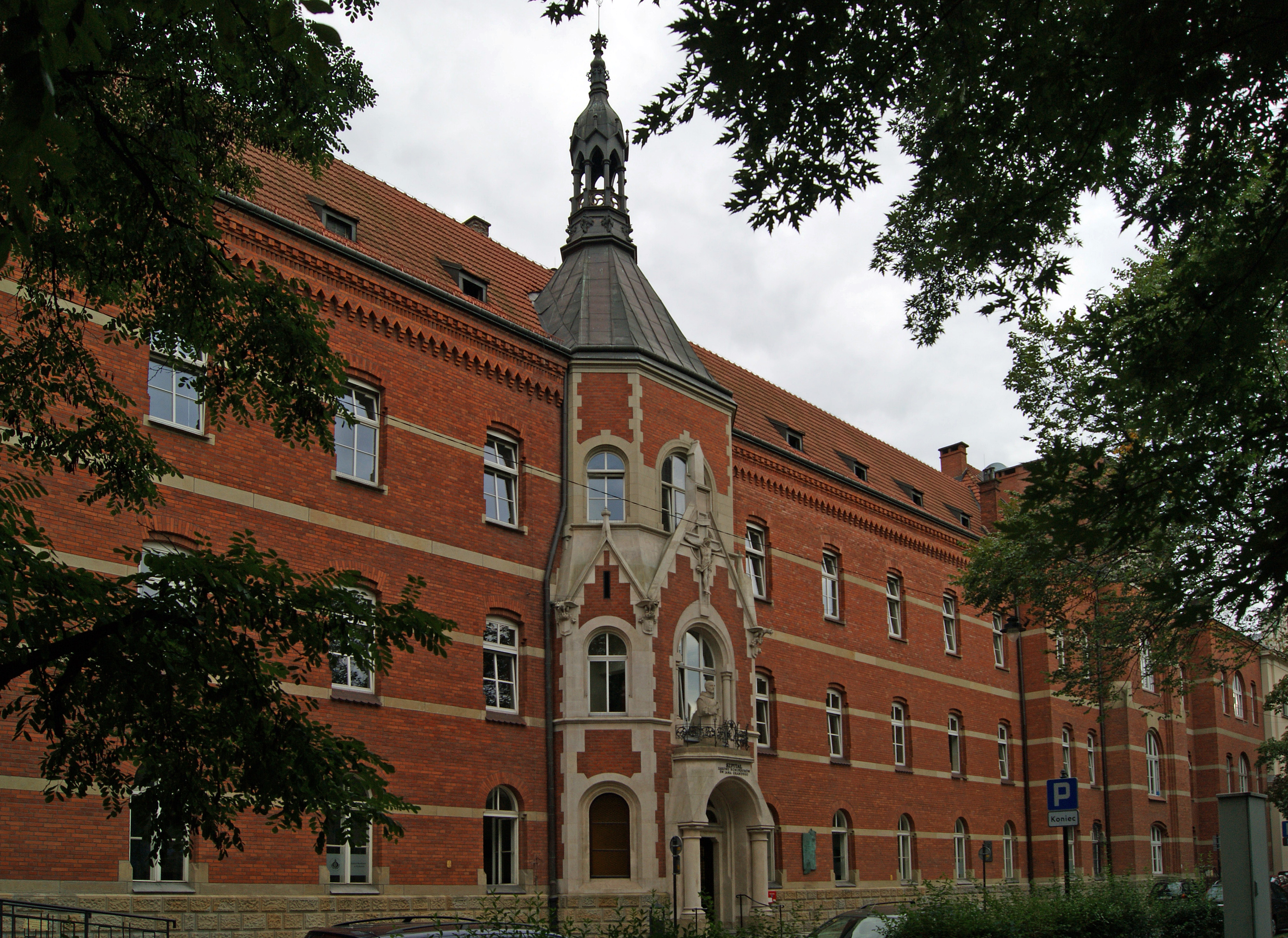 StJohn Grande Hospital (Merciful Brother's Order), 1898-1901, designed by arch. Teodor Talowski, 3-11 Trynitarska street, Kazimierz, Krakow, Poland